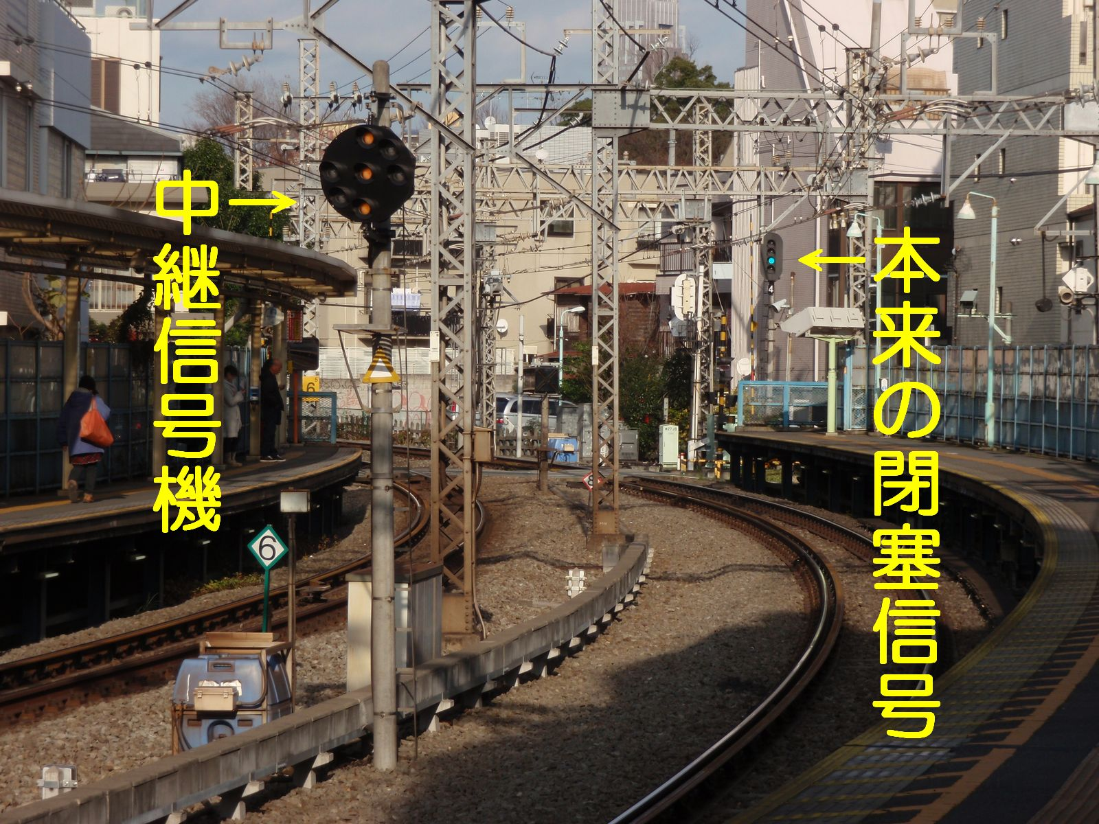 Repeating signal at Yoyogihachiman Sta. of Odakyu Electric Railway